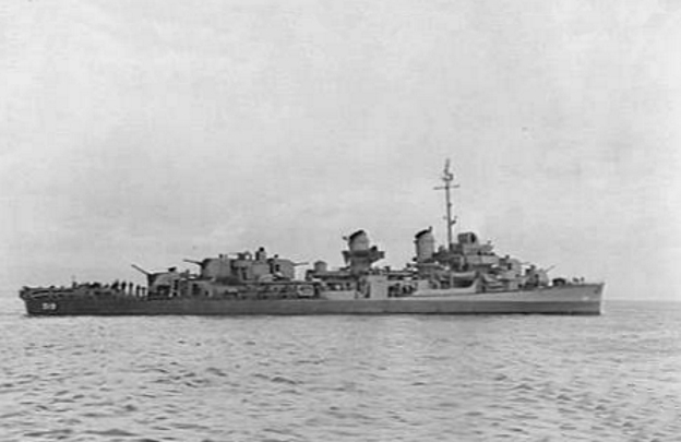 The U.S. Navy destroyer USS Daly (DD-519) underway.